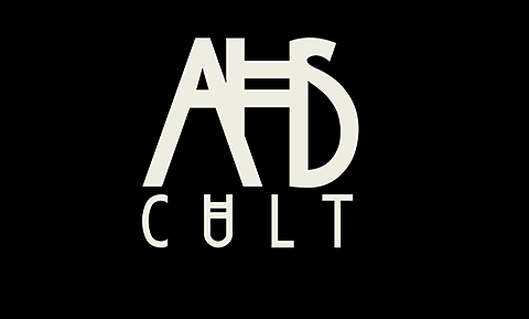 American Horror Story Cult logo